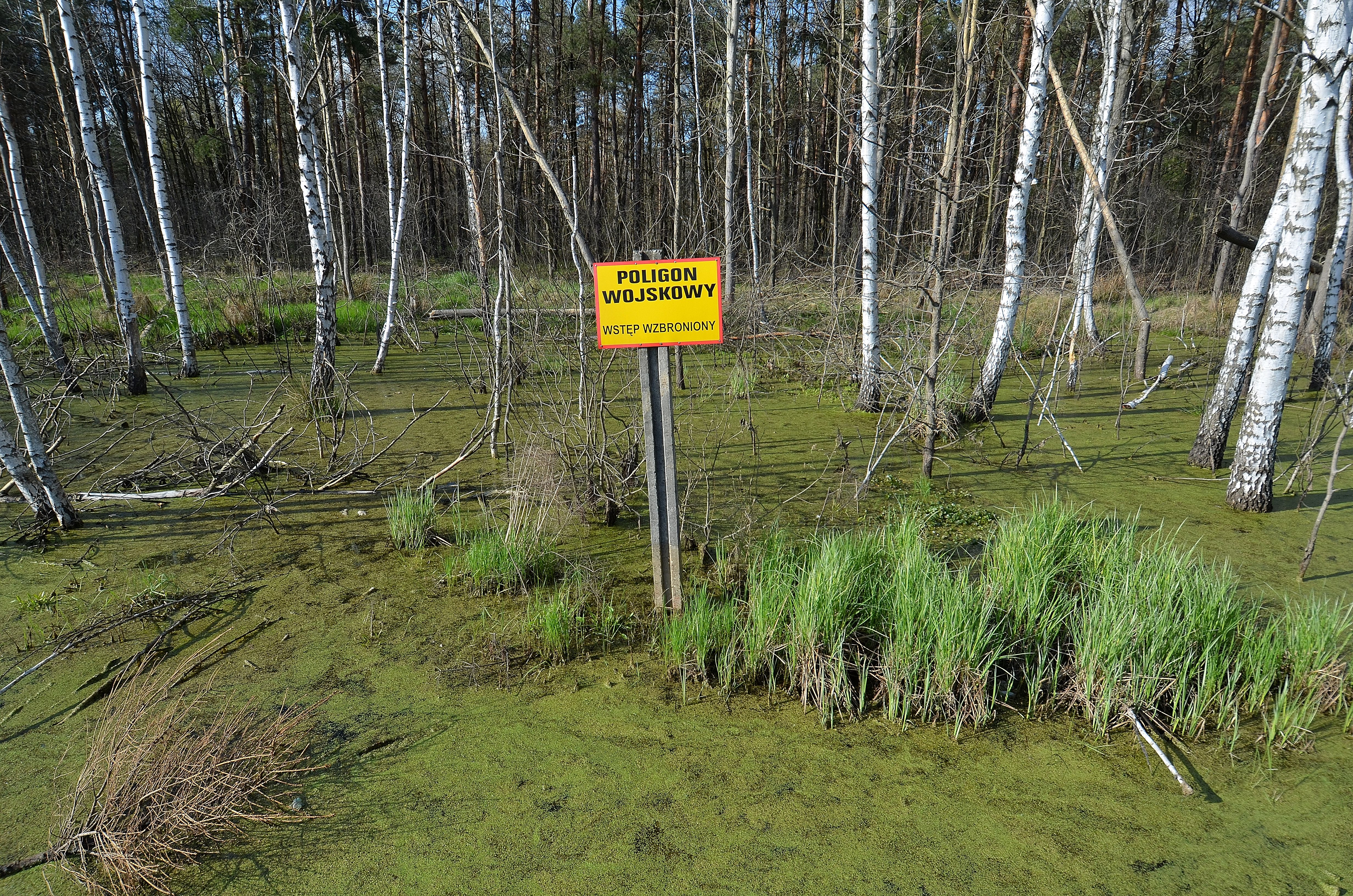 Proving ground in Wesoła